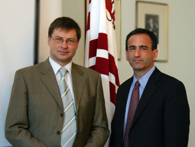 Photo of Prime Minister of Latvia, Valdis Dombrovskis (left) and U.S. Assistant Secretary of State for European and Eurasian Affairs Dr. Philip H. Gordon (right)